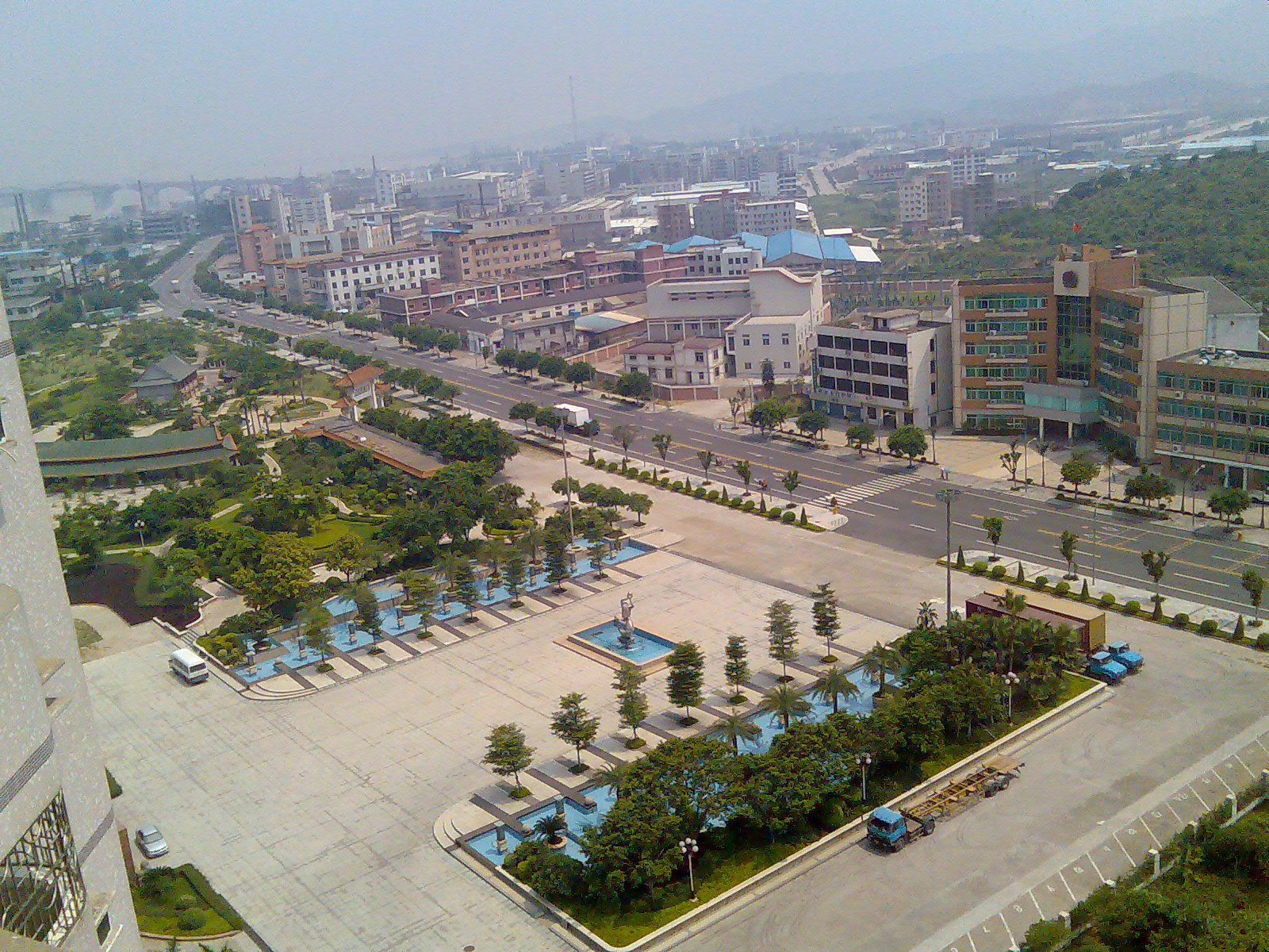 taken by me on a Nokia 6230 last summer while in Gaoming.